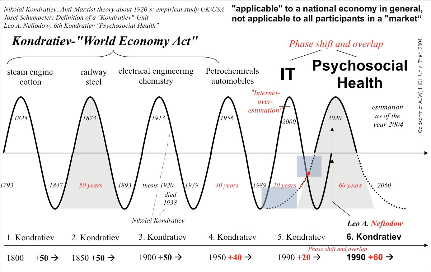 Kondratiev-waves IT and Health with phase shift and overlap. Own figure by JohanSonn acc. to requirements of Andreas J. W. Goldschmidt for his public lecture in 2004: What happens in the next years in hospital care? (Was kommt in den nächsten Jahren auf die stationäre Versorgung zu?) University of Marburg, 25. March 2004. Health Economy in Germany - Economical Field of the Future (Gesundheitswirtschaft in Deutschland - Die Zukunftsbranche). Wikom Publishing house, Wegscheid, Germany 2009, ISBN 978-3-9812646-0-9: Re-publication of the figure on page 22 (Volume 1 of: Health Economy and Management). Further background informations see Nikolai Kondratiev: Antimarxistic thesis about 1920 (empirical Study UK/USA); Joseph Schumpeter: Definition of the “Kondratiev”-Unit; Leo A. Nefiodow: 6th Kondratiev-wave “Psychosocial Health”; International Health Care Management Institute - IHCI - University of Trier → Research → Pattern recognition → Example → Criticism of long cycles acc. to Kondratiev by Andreas J. W. Goldschmidt in: or You can find also a German version of this figure here